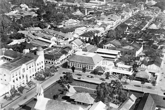 Air photo of Medan